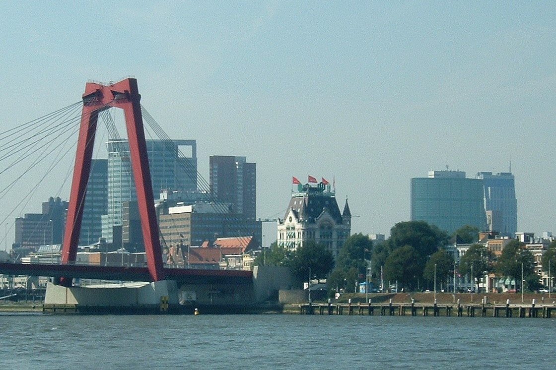 The Witte Huis (White House) in Rotterdam visible across the river.